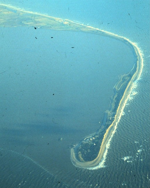 Spurn, East Riding of Yorkshire, England. Original description: Spurn Head from the air (1979) A view of Spurn Point and its jetty from the south. The causeway which carries the access road was frequently vulnerable to storm damage.